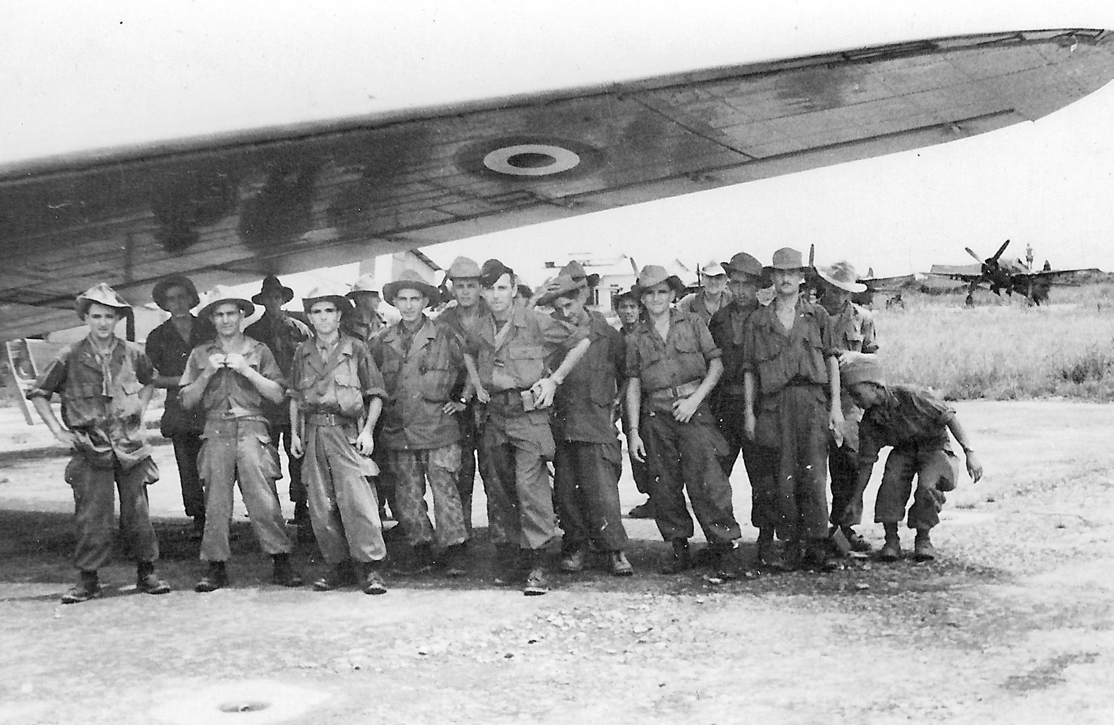 Photo of elements of Template:2nd BEP (Foreign Legion paratrooper) under the wing of a Dakota - N° 316286